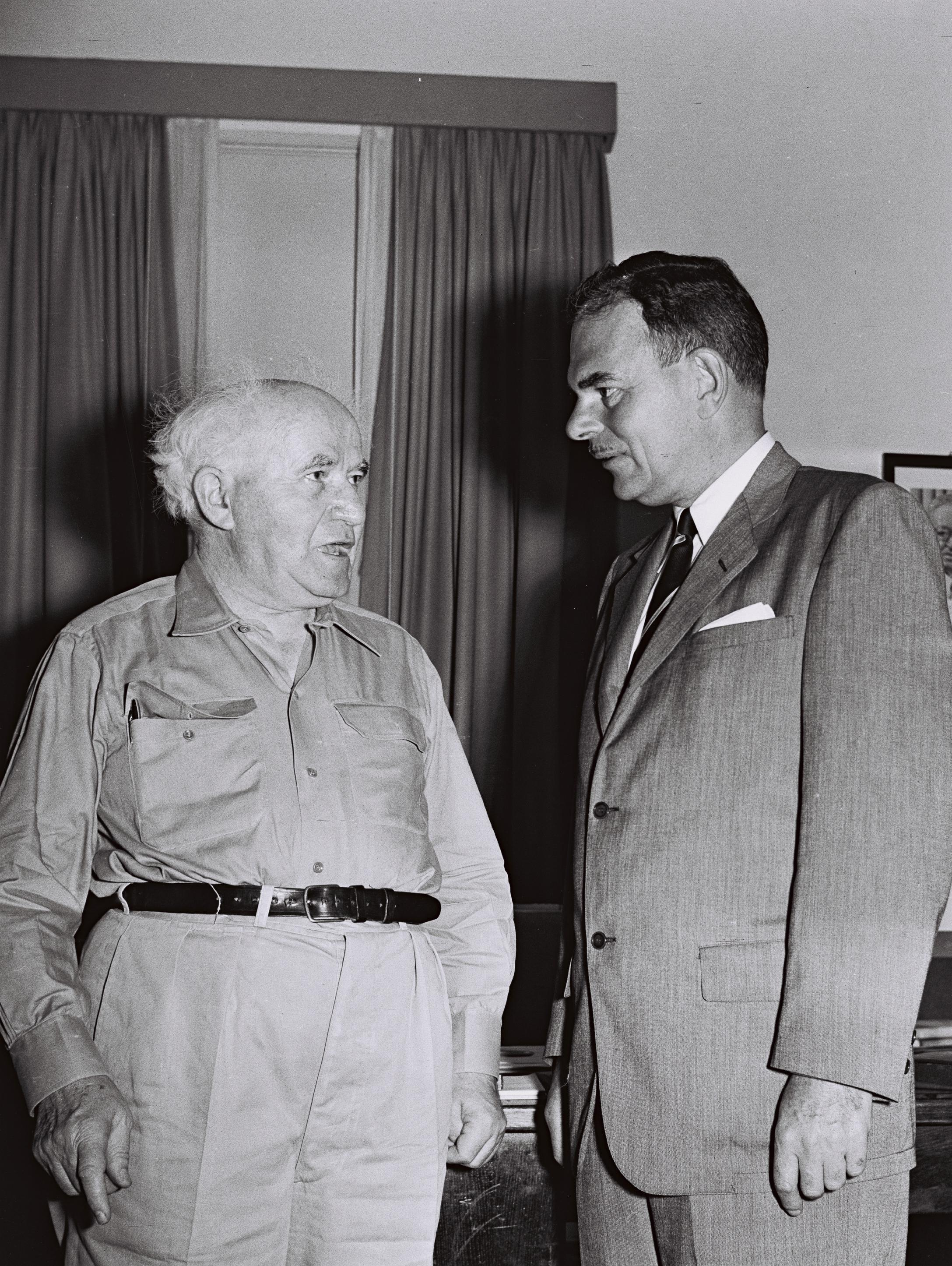 Former New York Governor Thomas E. Dewey visitng David Ben Gurion